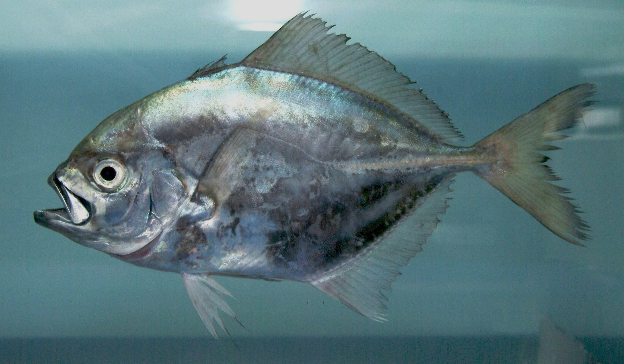 Cottonmouth jack ( Uraspis secunda ). Gulf of Mexico.